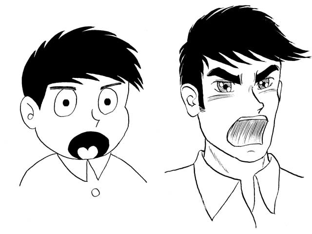 Original information by the uploader: マンガと劇画のタッチの例 左：マンガ的な絵。右：劇画的な絵。 投稿者による描画。JPEG化。